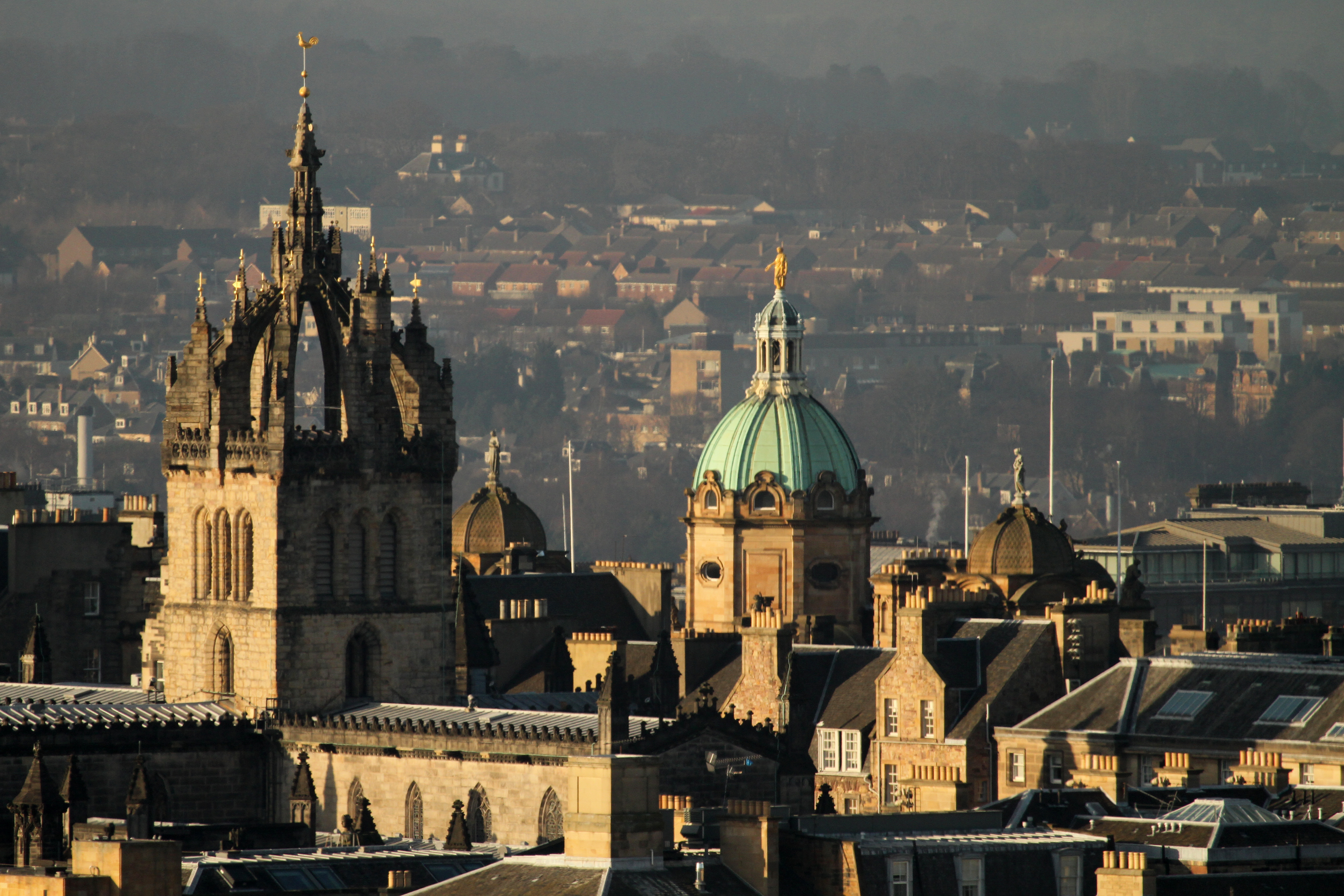 St Giles Catherdral